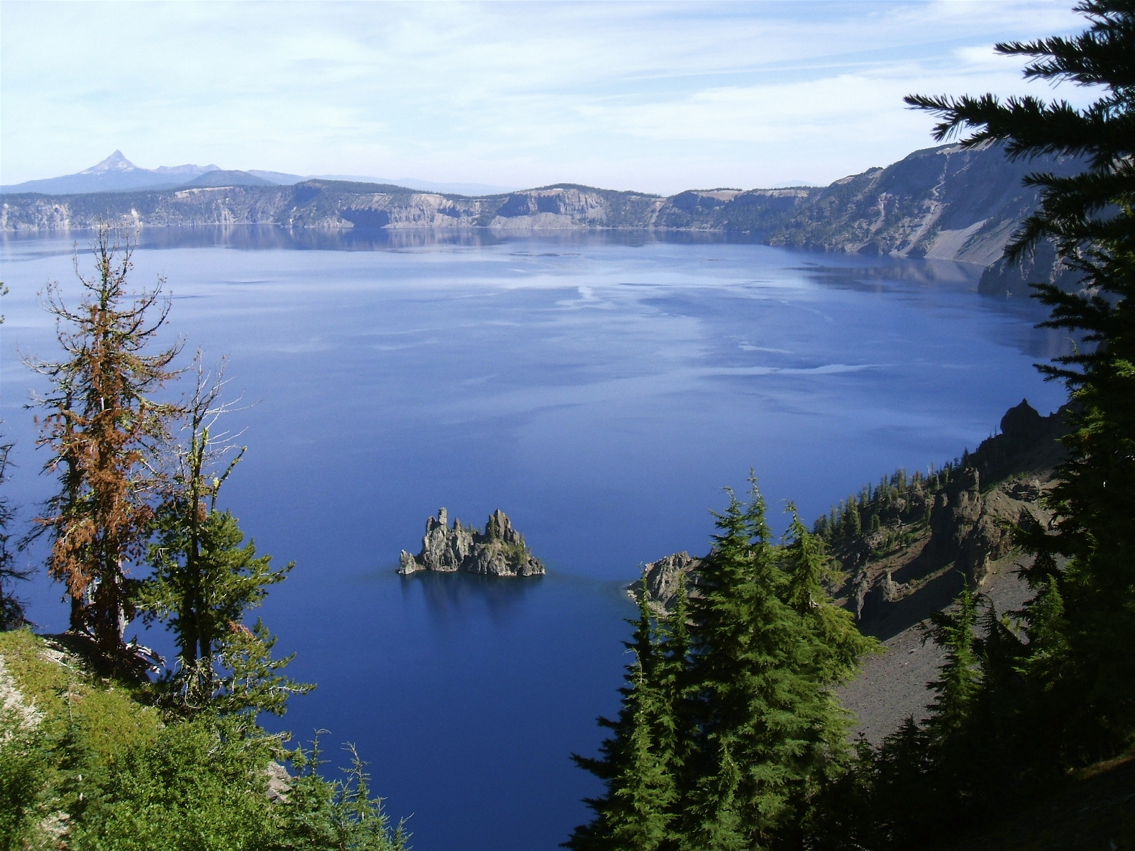 One of my favorite places in Crater Lake is Sun Notch. Quiet, beautiful panoramas of the caldera walls and the endless azure of the lake. Here is a shot of Phantom Ship, the ancient volcanic core exposed and stranded by the collapse of Mount Mazama and its filling with snowmelt and rain. Beyond are the walls of Wineglass Cove (right) and Cleetwood Cove (left). Behind at the left is Mount Thielsen, a volcano which has been worn away by time and glaciers until it is little more than a needle in the sky. Crater Lake National Park, Oregon